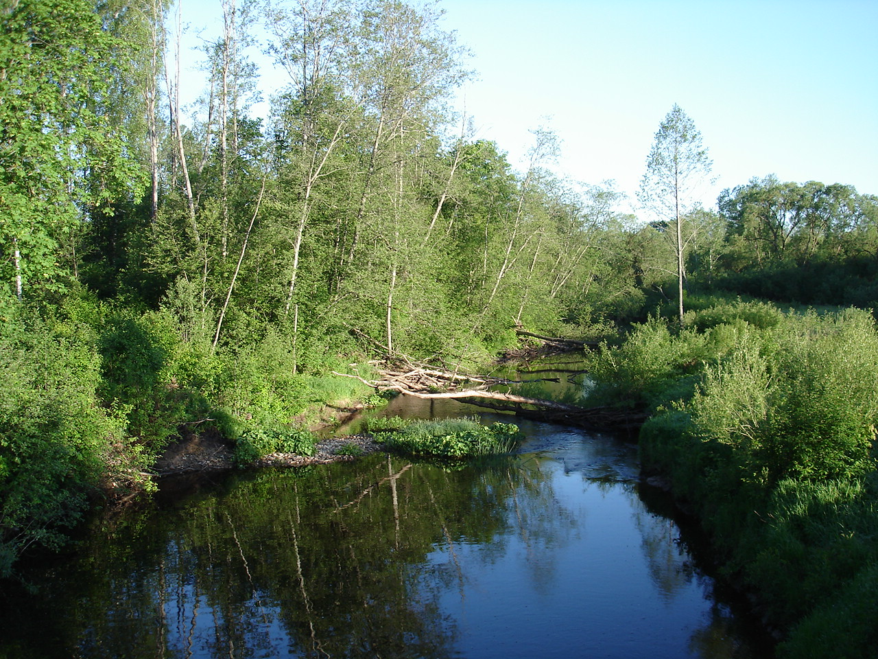 river